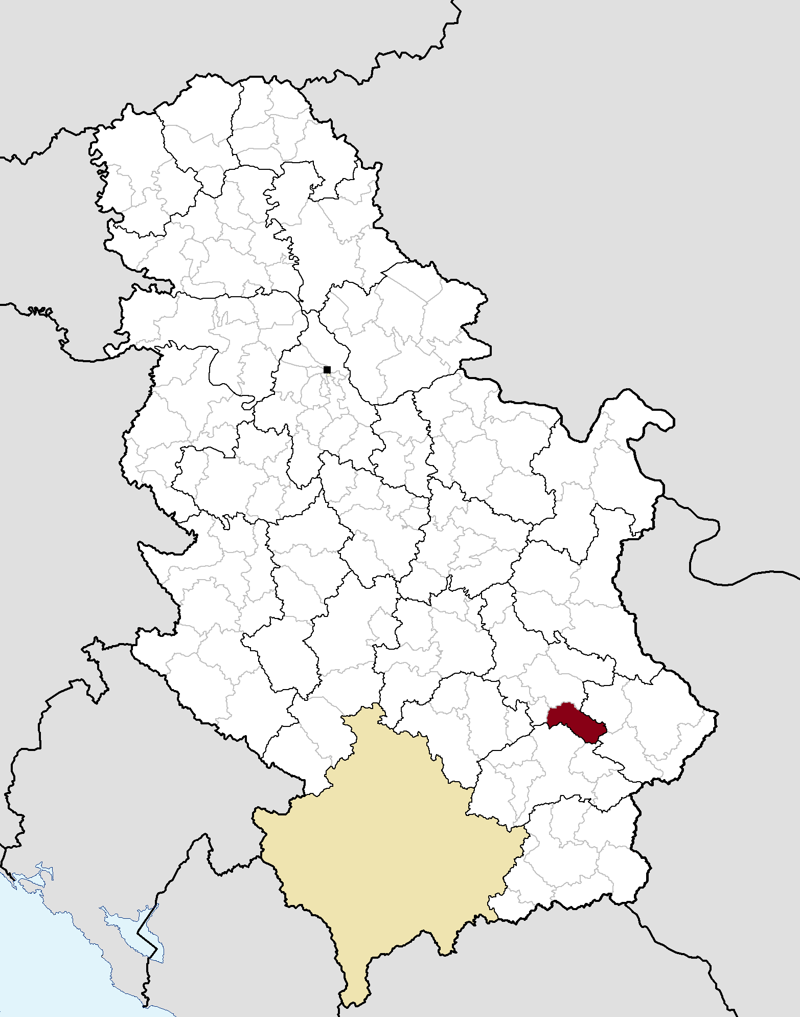 Municipal location in Serbia